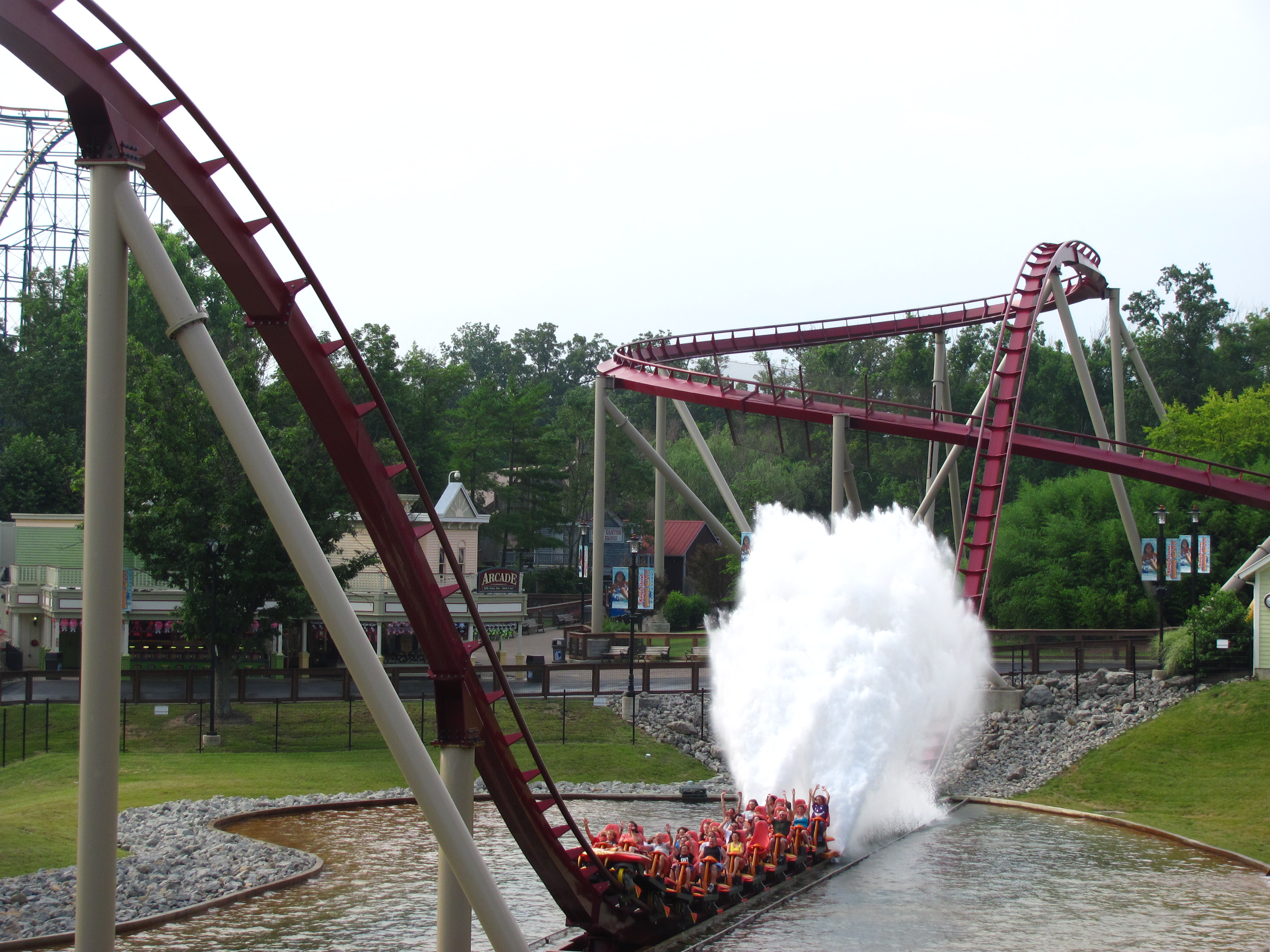 Diamondback's splashdown from the station at Kings Island amusement park.